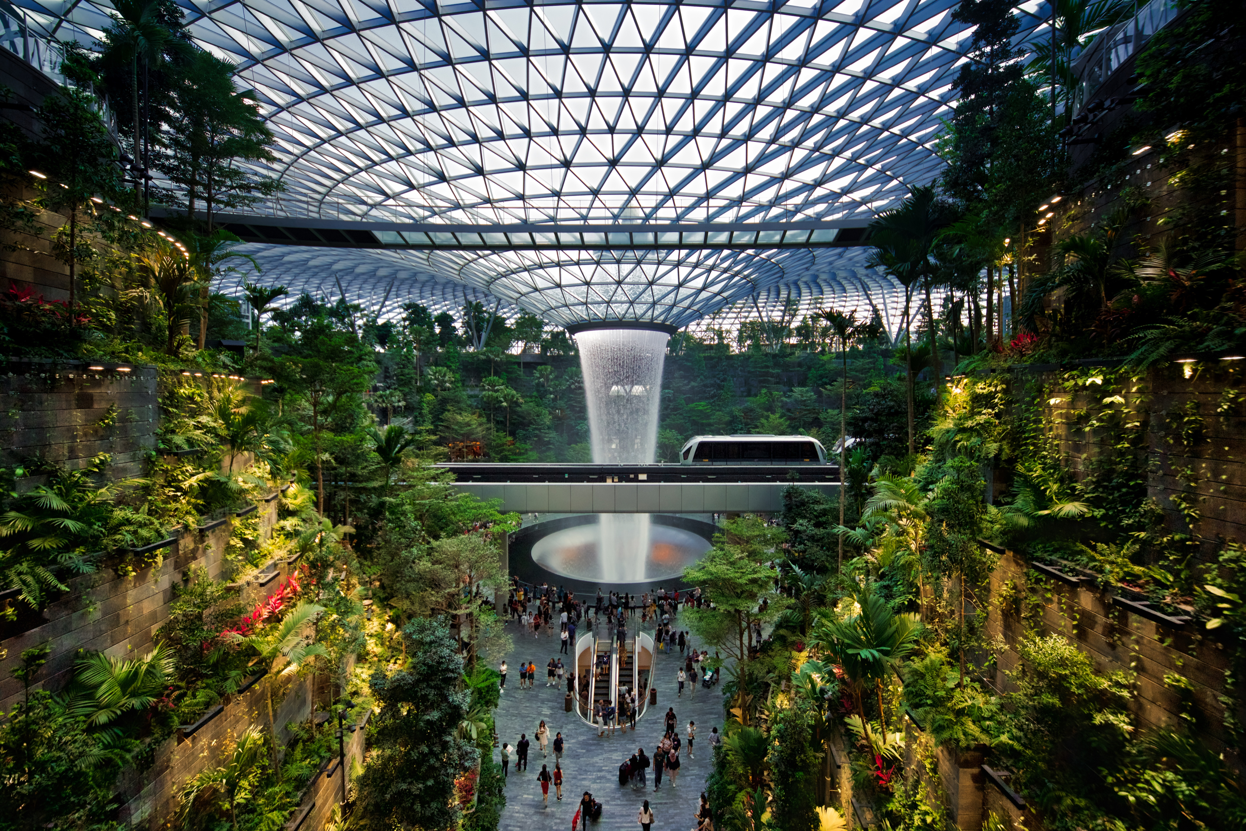 HSBC Rain Vortex inside the "Jewel" area at Changi Airport (SIN). SkyTrain connecting Terminal 2 and 3 is visible in the photo.